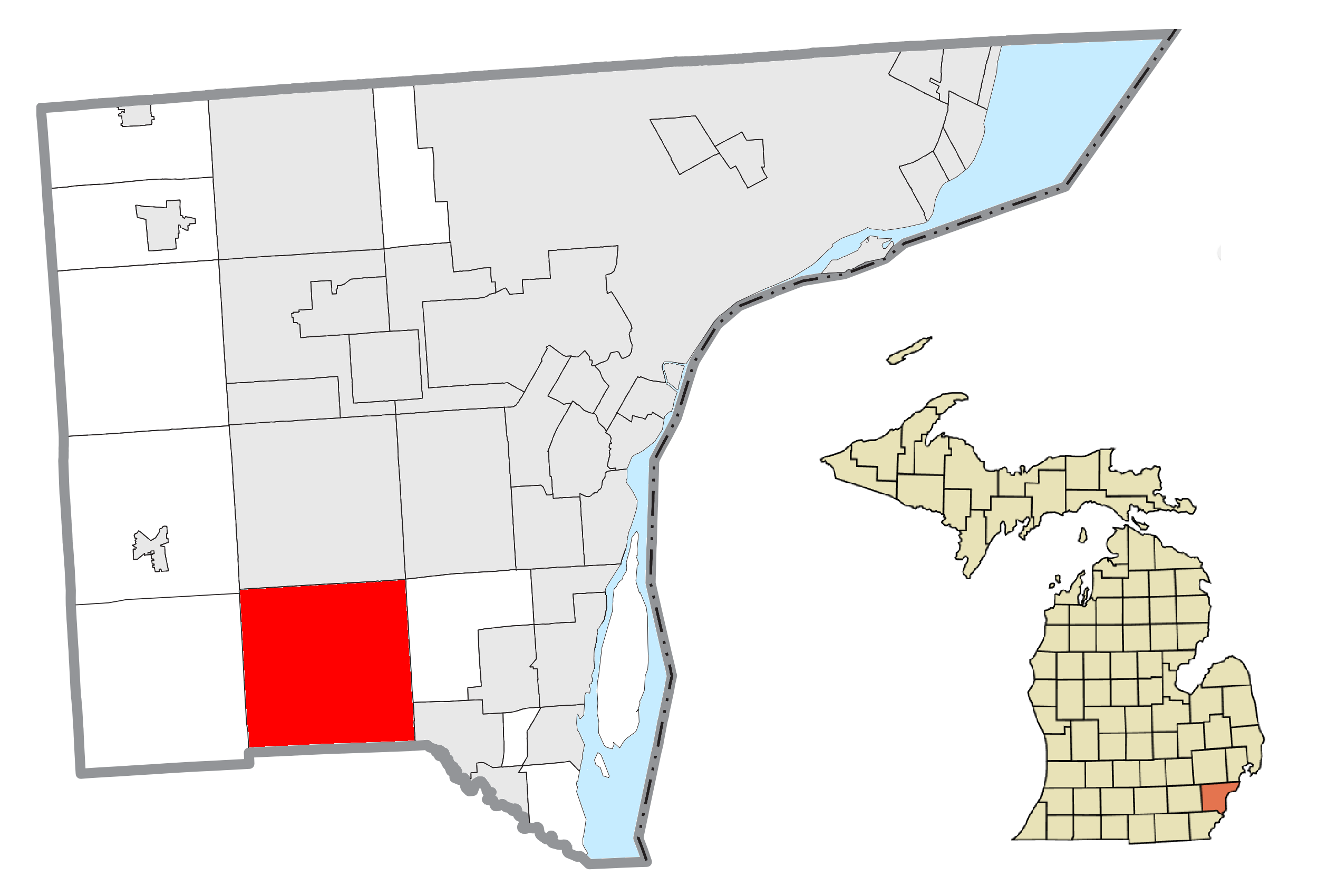 Huron Charter Township, MI